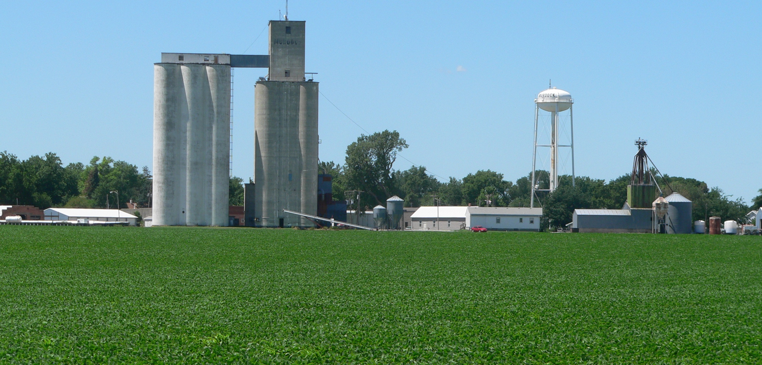 Murdock, Nebraska; seen from the southeast, from county road 310th Street.